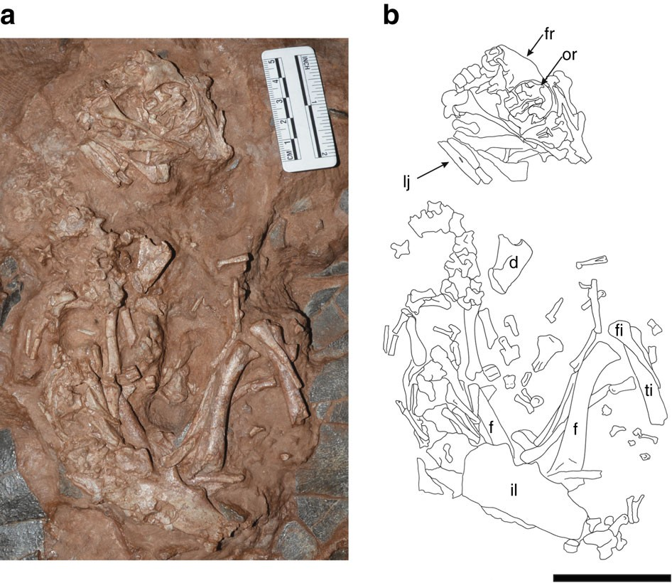 (a) Photograph. (b) Highly schematic outline shows general layout of the skeleton (illustrated by Zhaochuang). Scale bar, 5 cm. d, dentary; f, femur; fi, fibula; fr, frontal; lj, lower jaw; or, orbit; ti, tibia.